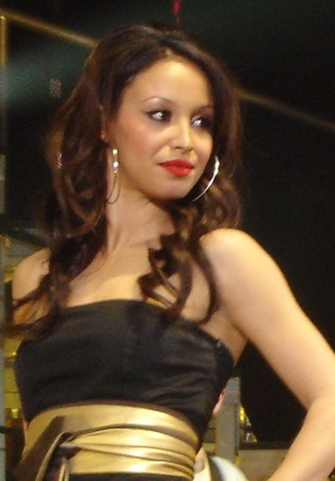 Sugababes - Hammersmith Apollo 110406 (3)